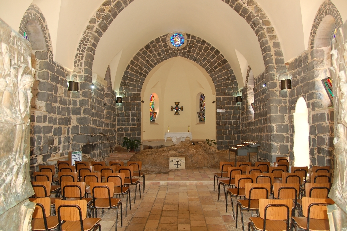 Impressions Wikimania 2011 Nazareth-Galilee Tour